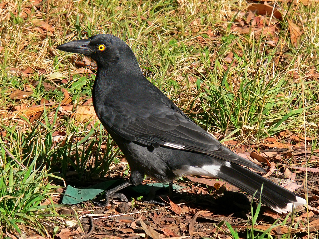 A Pied Currawong, (Strepera graculina)